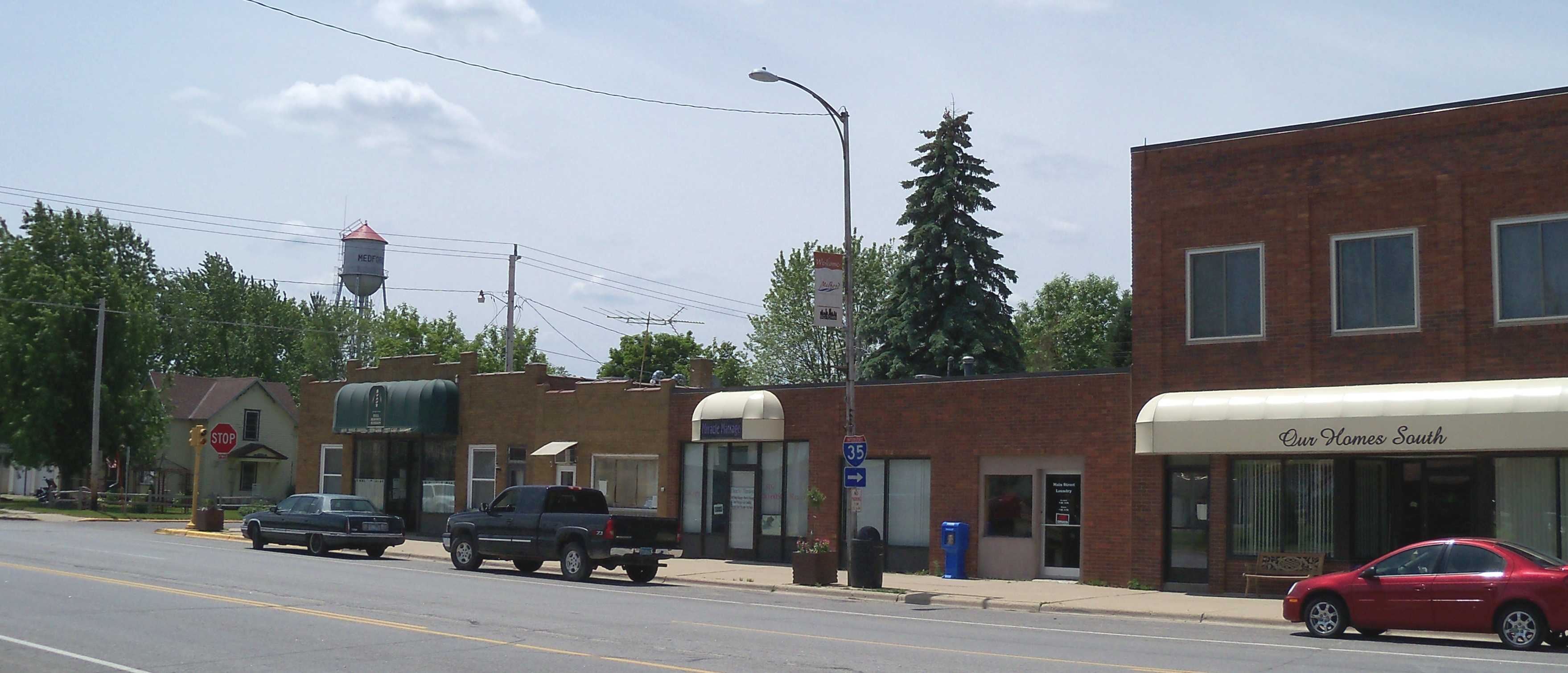 Buildings in Medford, Minnesota, USA.